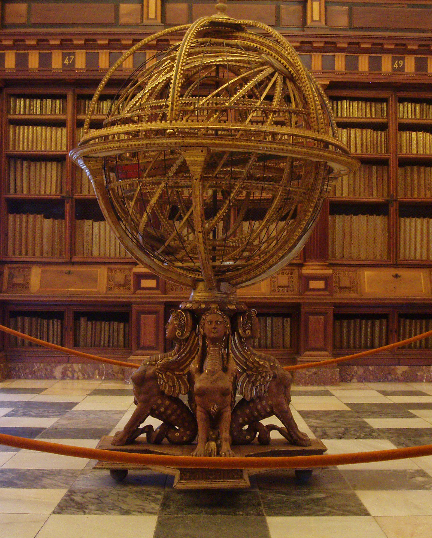 armillary sphere in monastery of "El Escorial", San Lorenzo del Escorial, Madrid, Spain. Constructed by Antonio Santucci; date of construction 1582 aprox